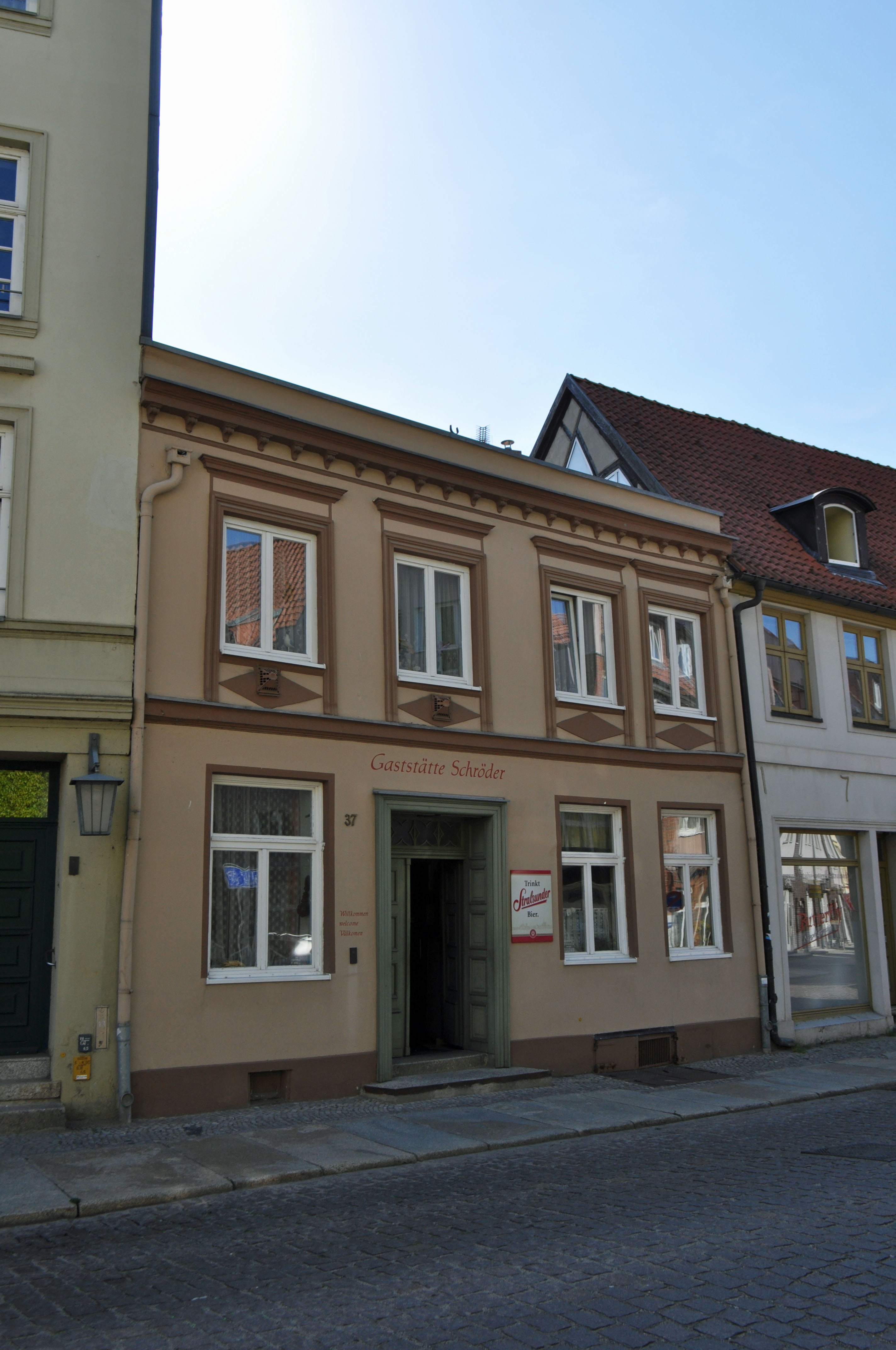 Stralsund, Wasserstraße 37 This is a photograph of an architectural monument.